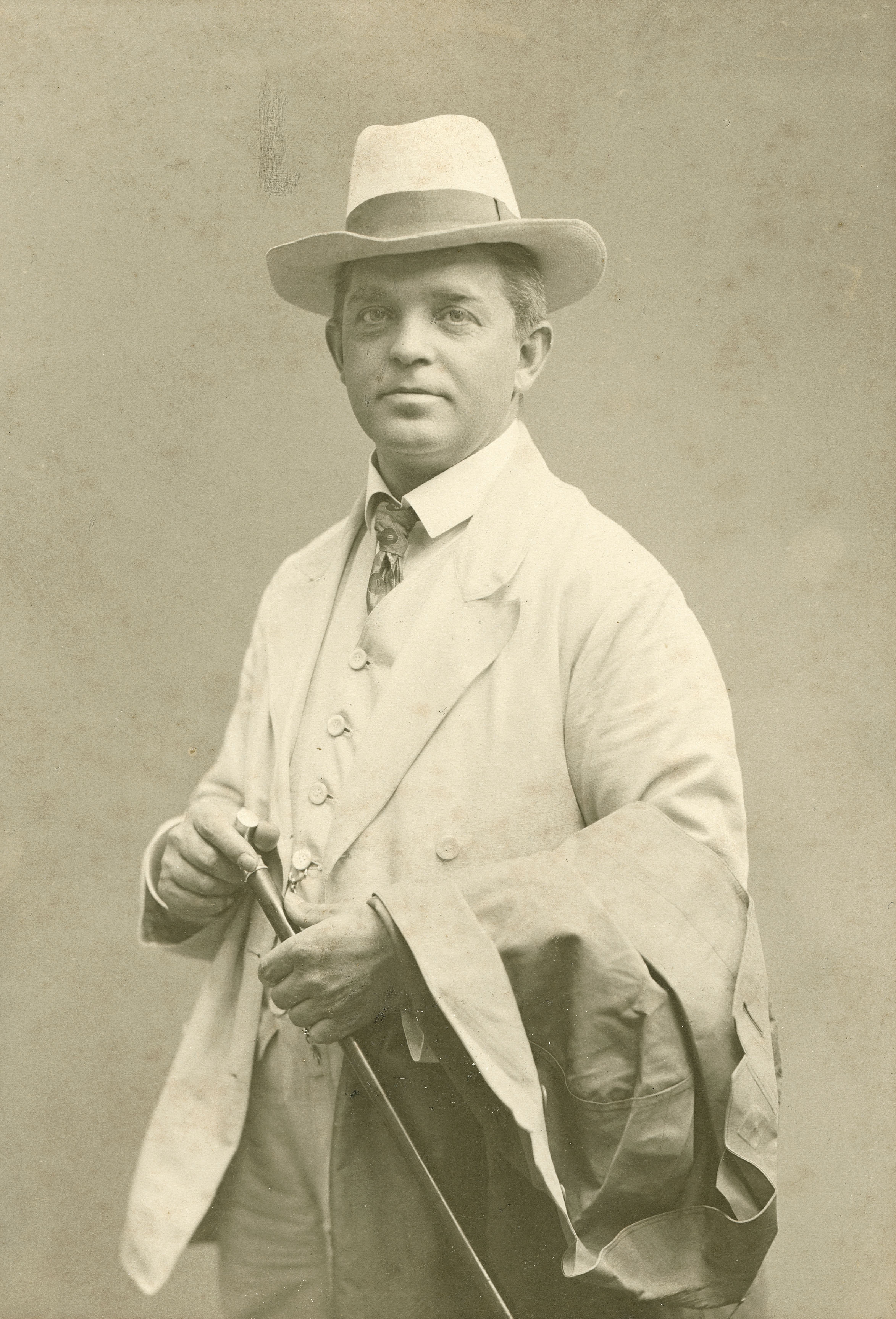 Portrait photo of Danish composer Carl Nielsen